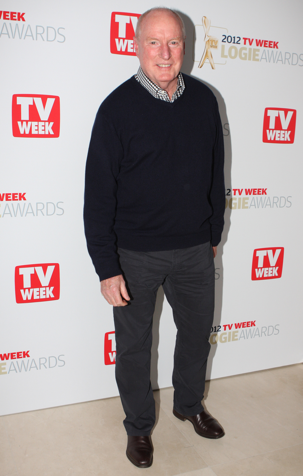 Australian actor Ray Meagher at the TV Week Logie Nominations In Sydney, Australia